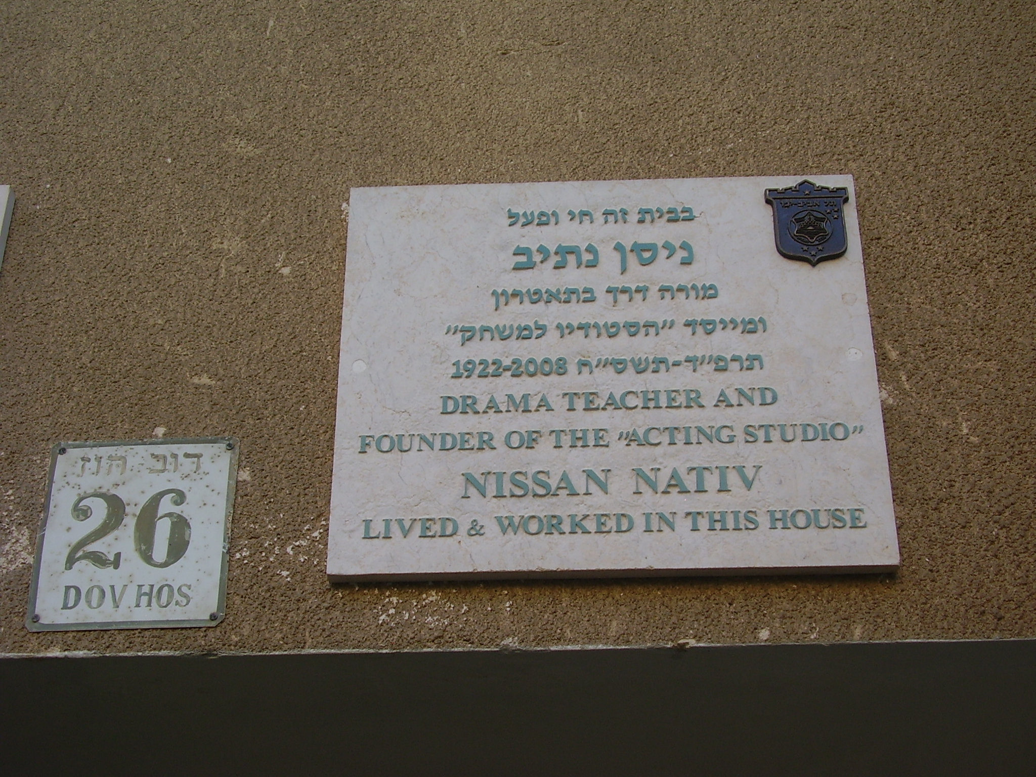 memorial plaque on nissan nativ house in tel aviv לוחית זיכרון על ביתו של ניסן נתיב ברח' דב הוז 26 בתל אביב